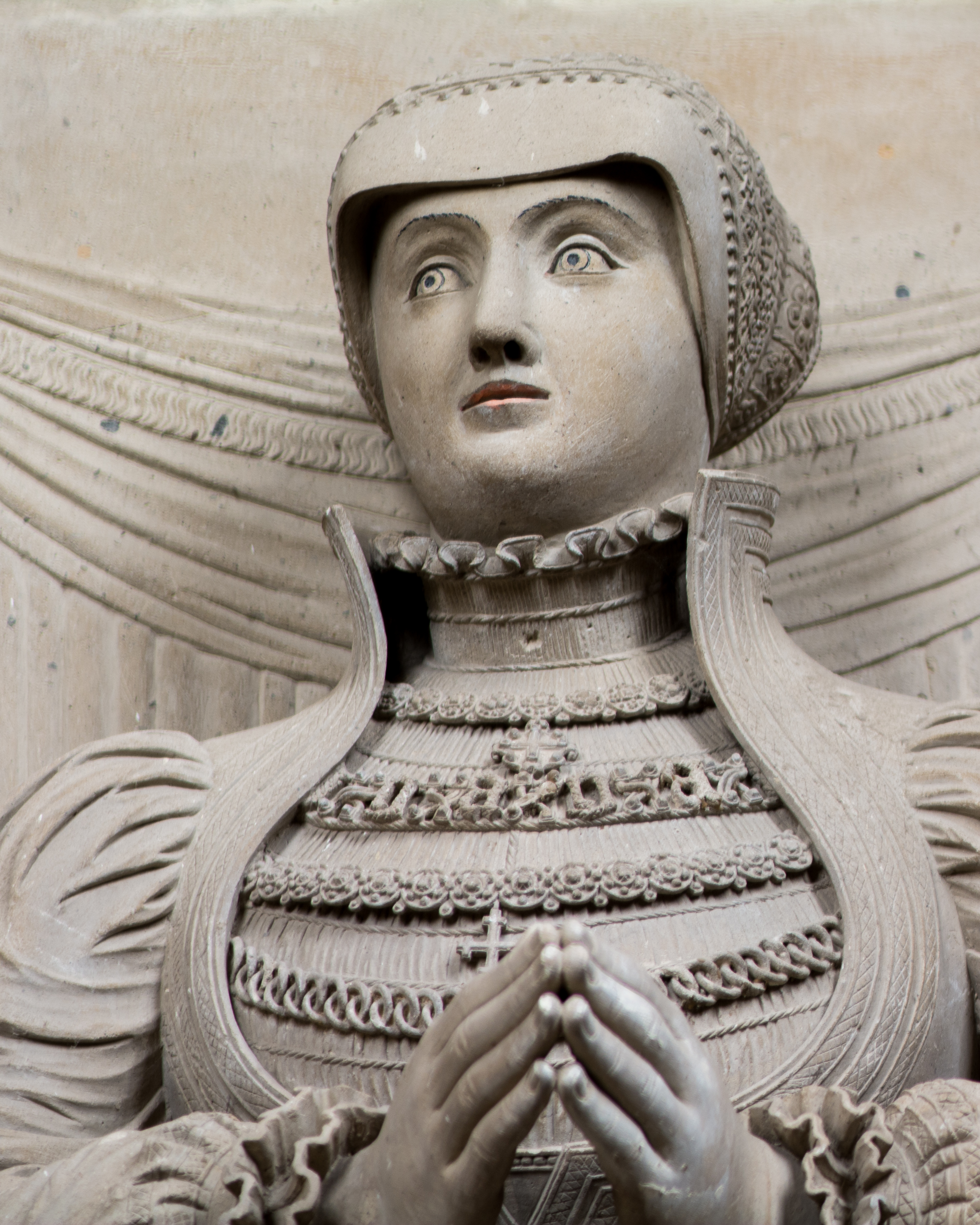 Bust of Beatrix on the Effigy of Johan II of Pfalz-Simmern and Beatrix of Baden